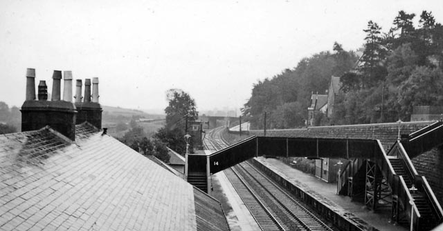 Bridge of Weir Station. View NW, towards Greenock; ex-G&SW Glasgow (St Enoch) - Paisley - Elderslie - Greenock (Prince's Pier) line. Line closed to passengers Kilmacolm - Greenock 2/2/59, to goods 26/9/66. Elderslie - Kilmacolm not closed until 10/1/83, when Bridge of Weir closed. (High parapet of bridge prevented my getting a better picture, in pouring rain).